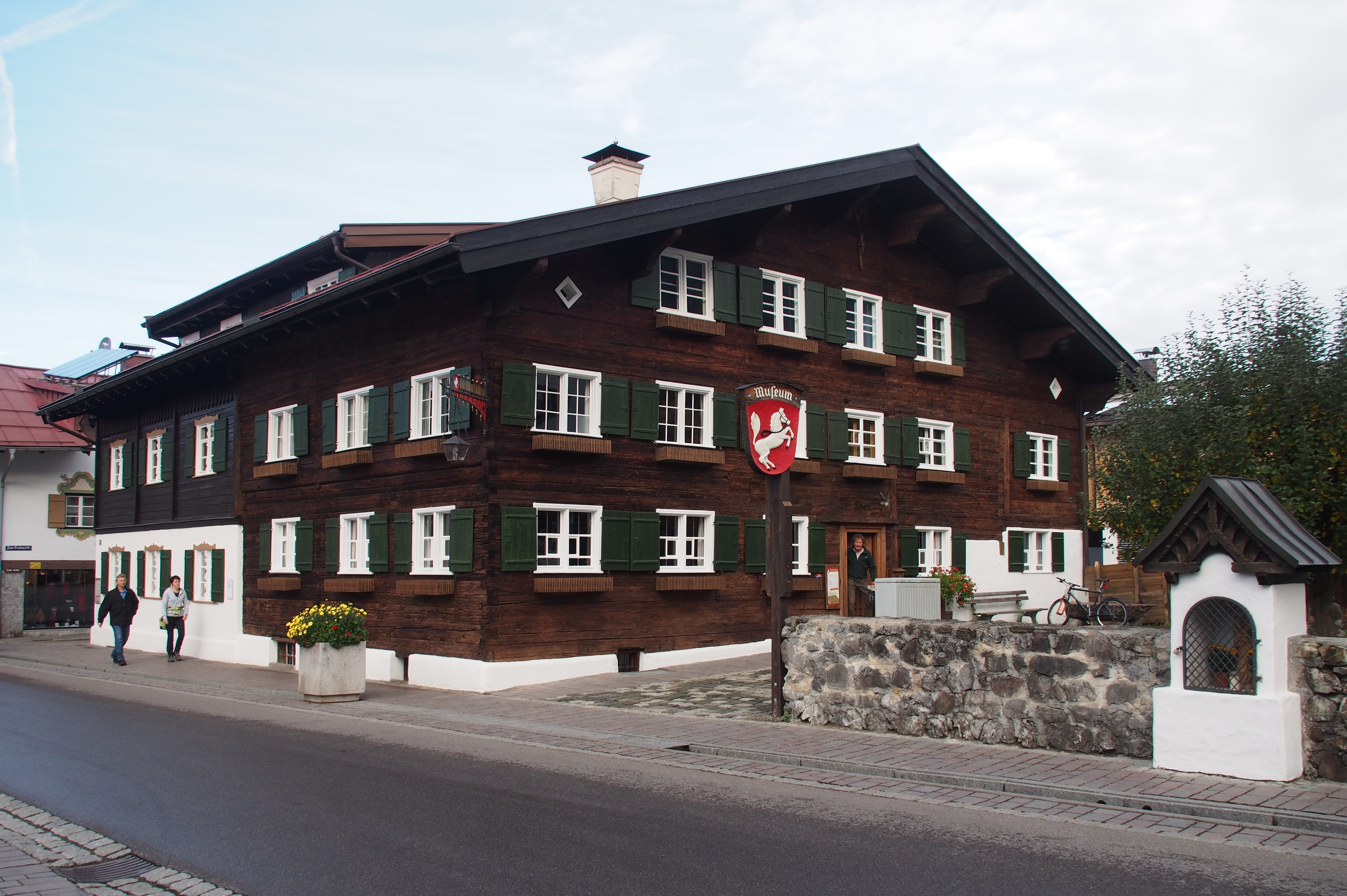 the estside and entrance of the heimatmuseum